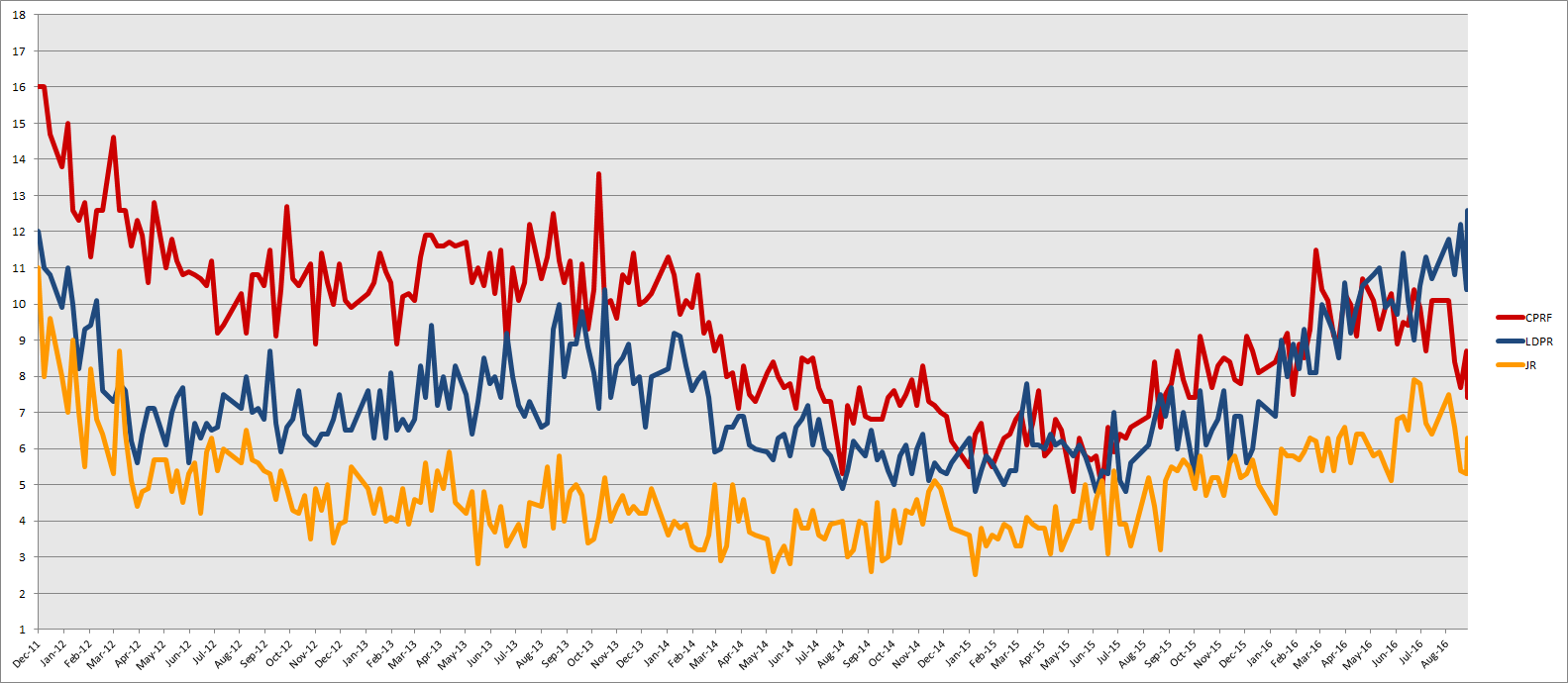 Opinion polls on Russian election,2016, opposition parties